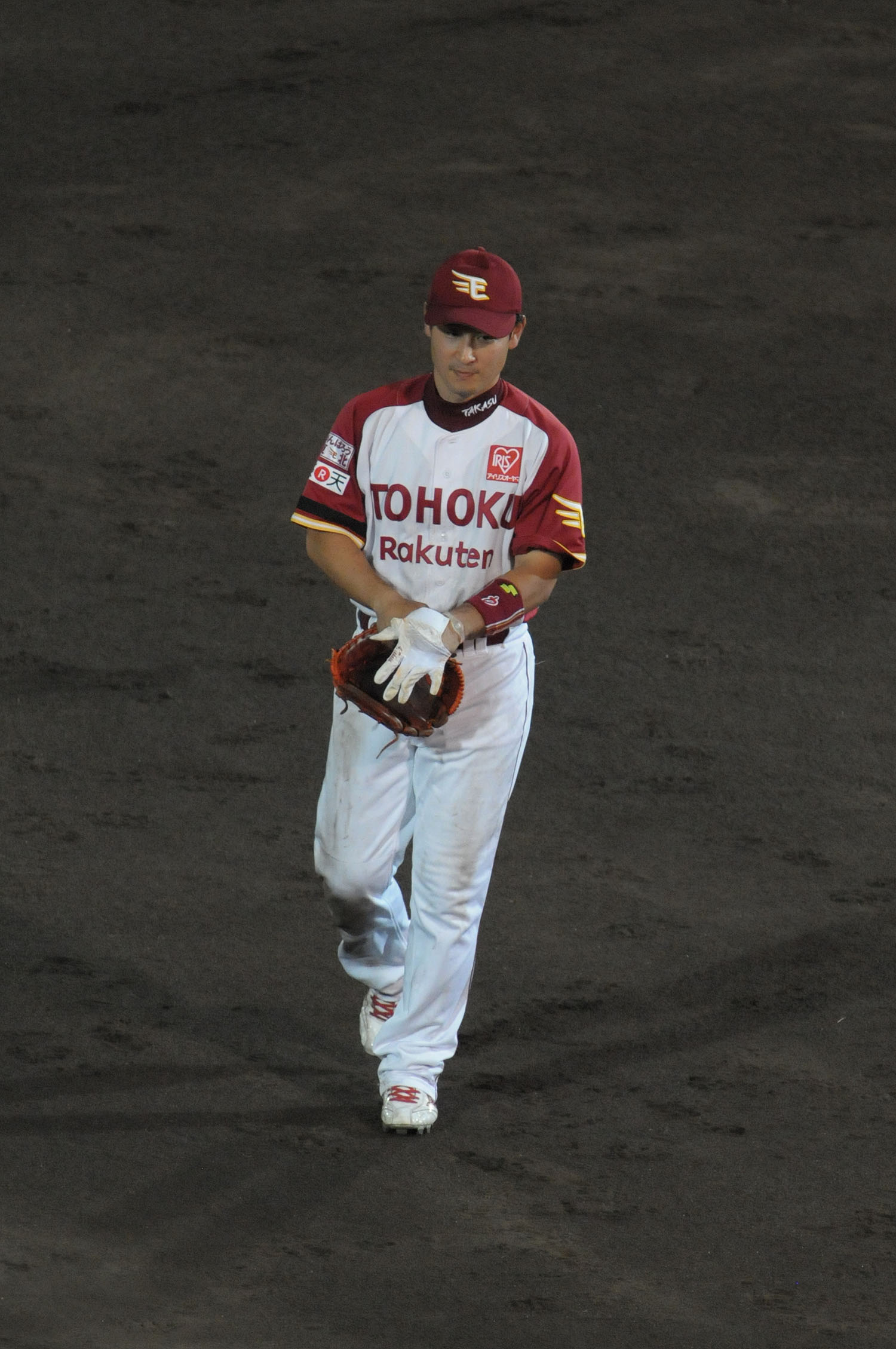 Yōsuke Takasu, infielder of the Tohoku Rakuten Golden Eagles, at Akita Prefectural Baseball Stadium.